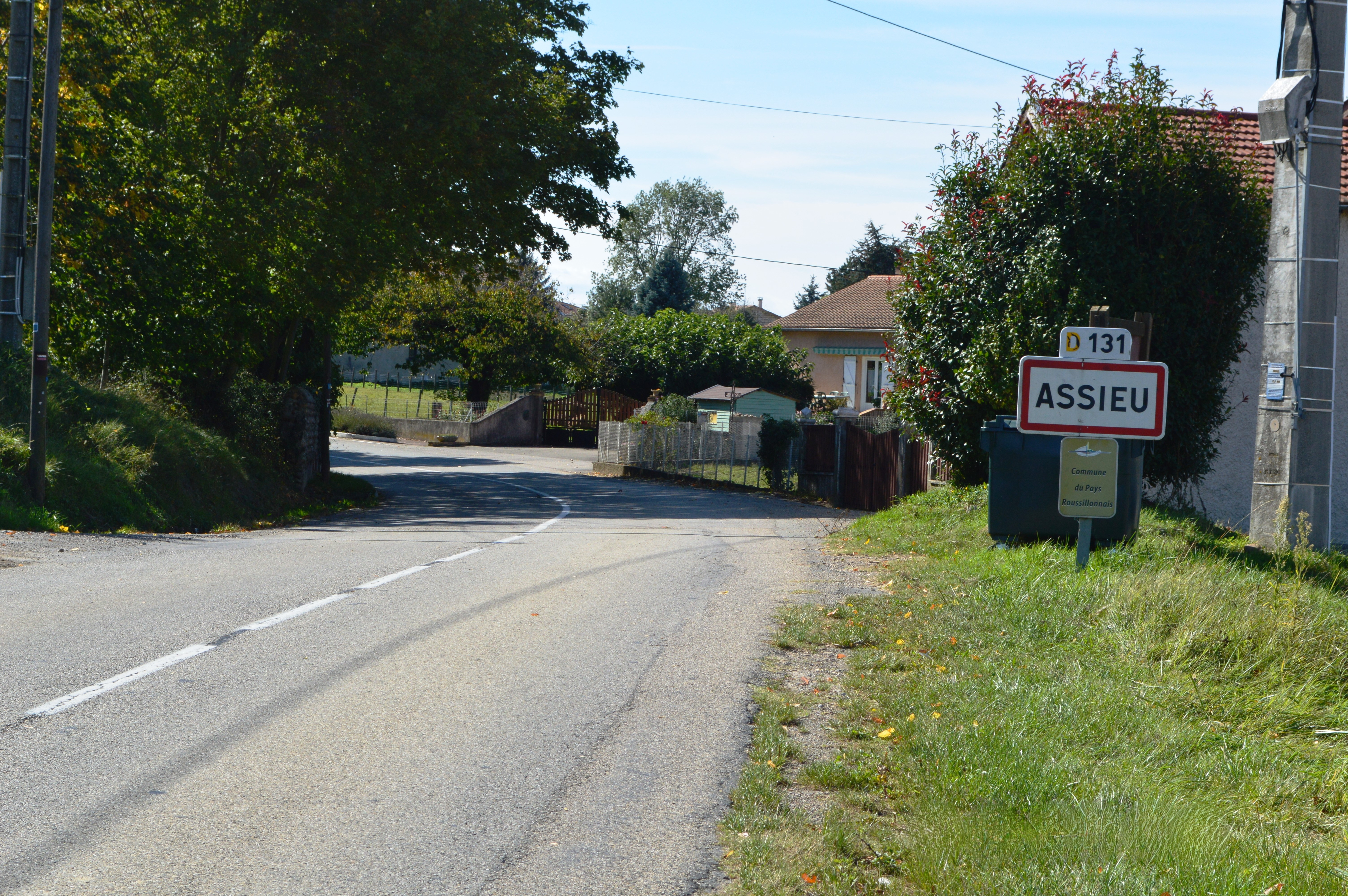 The entry to Assieu